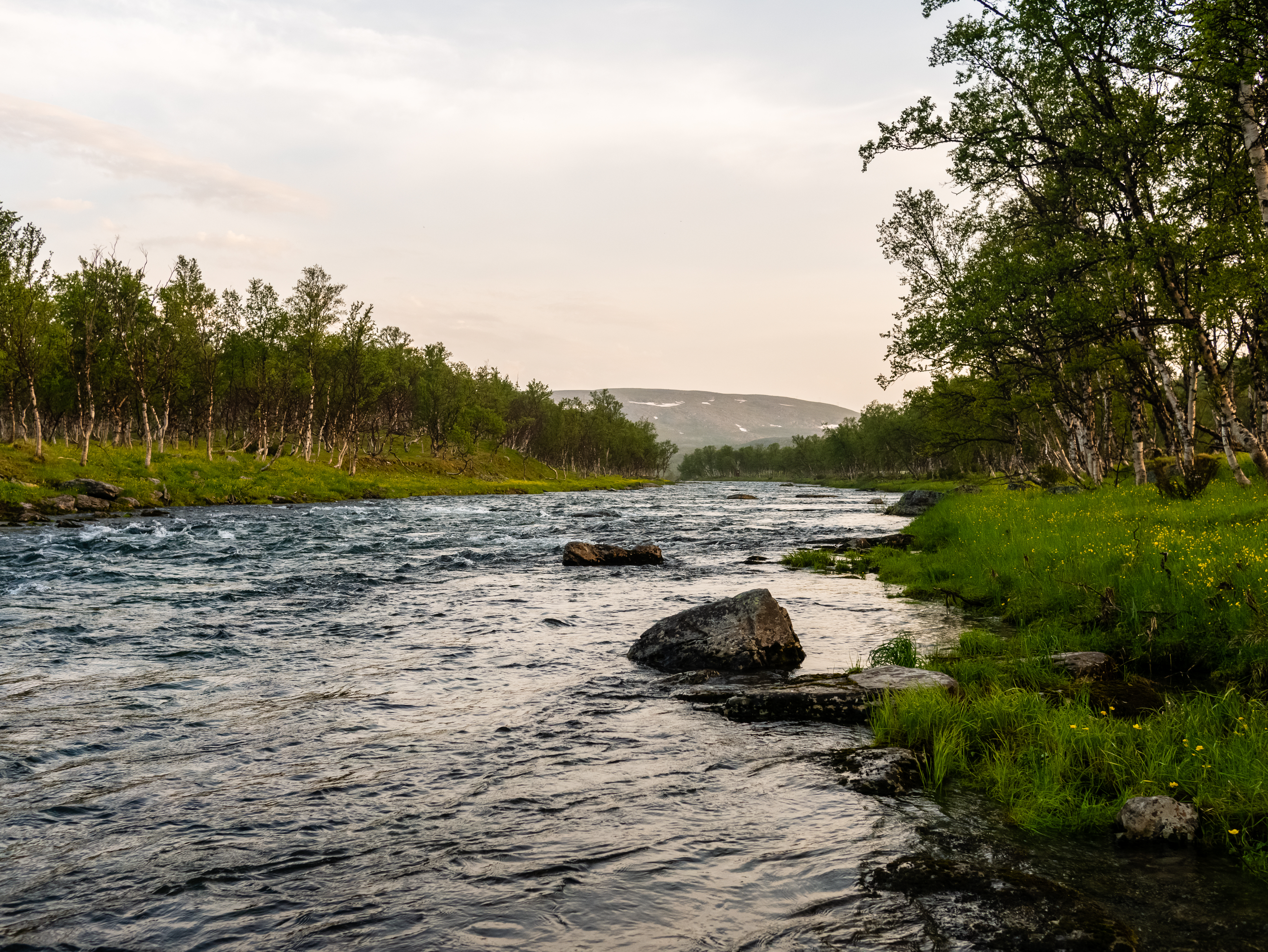 River Laggu on northern Norway